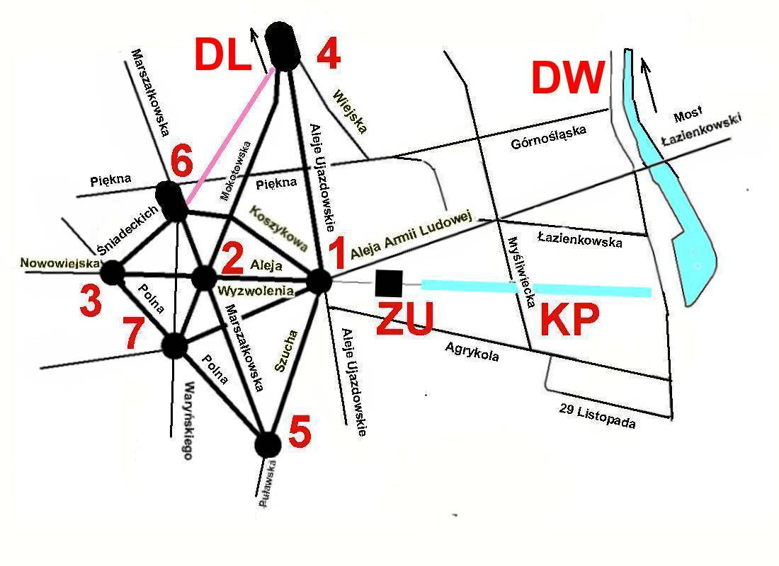 Stanislaus Axis today - urbanistic scheme panned at abou 1770/1780